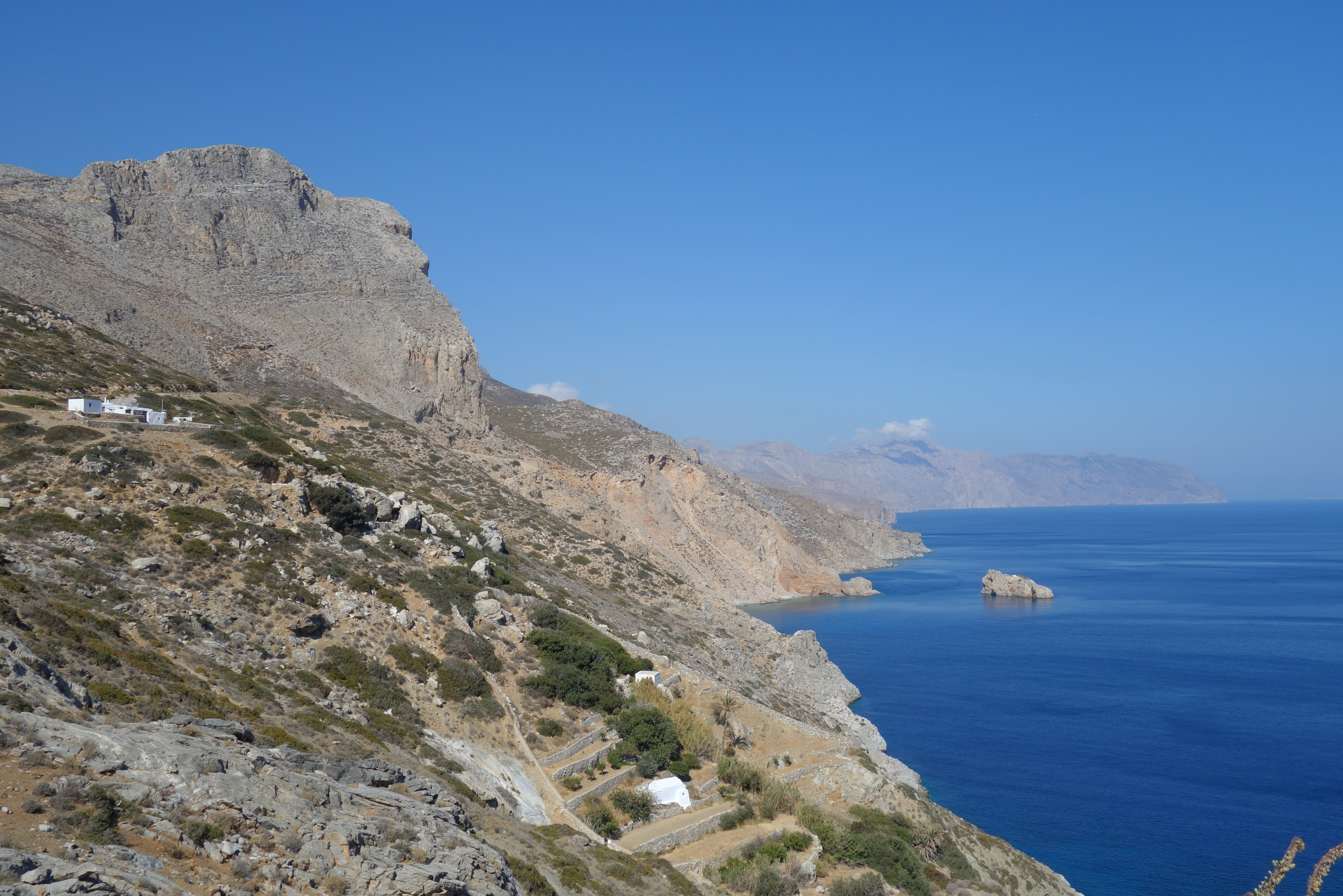 The journey from the Chozoviotissa monastery to the beach under Agia Anna. Amorgos